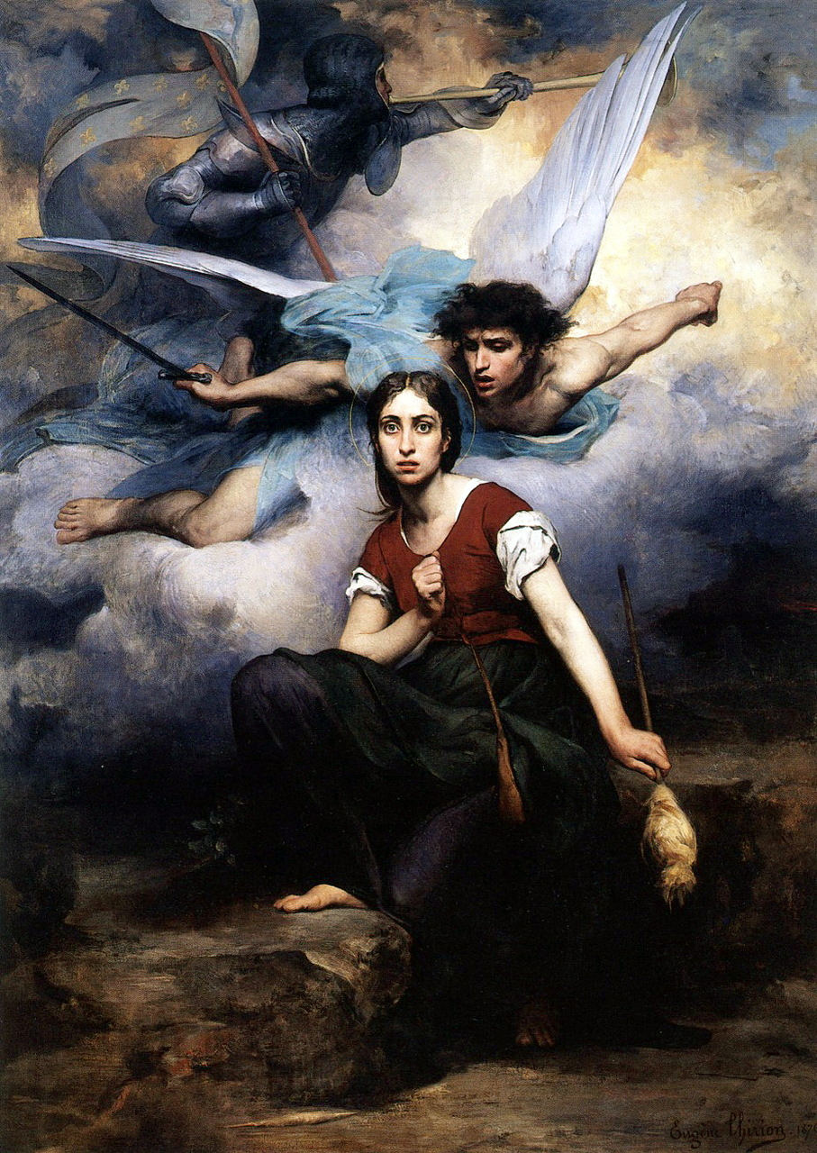 The portrait depicts Joan of Arc's awe upon receiving a vision from the Archangel Michael.